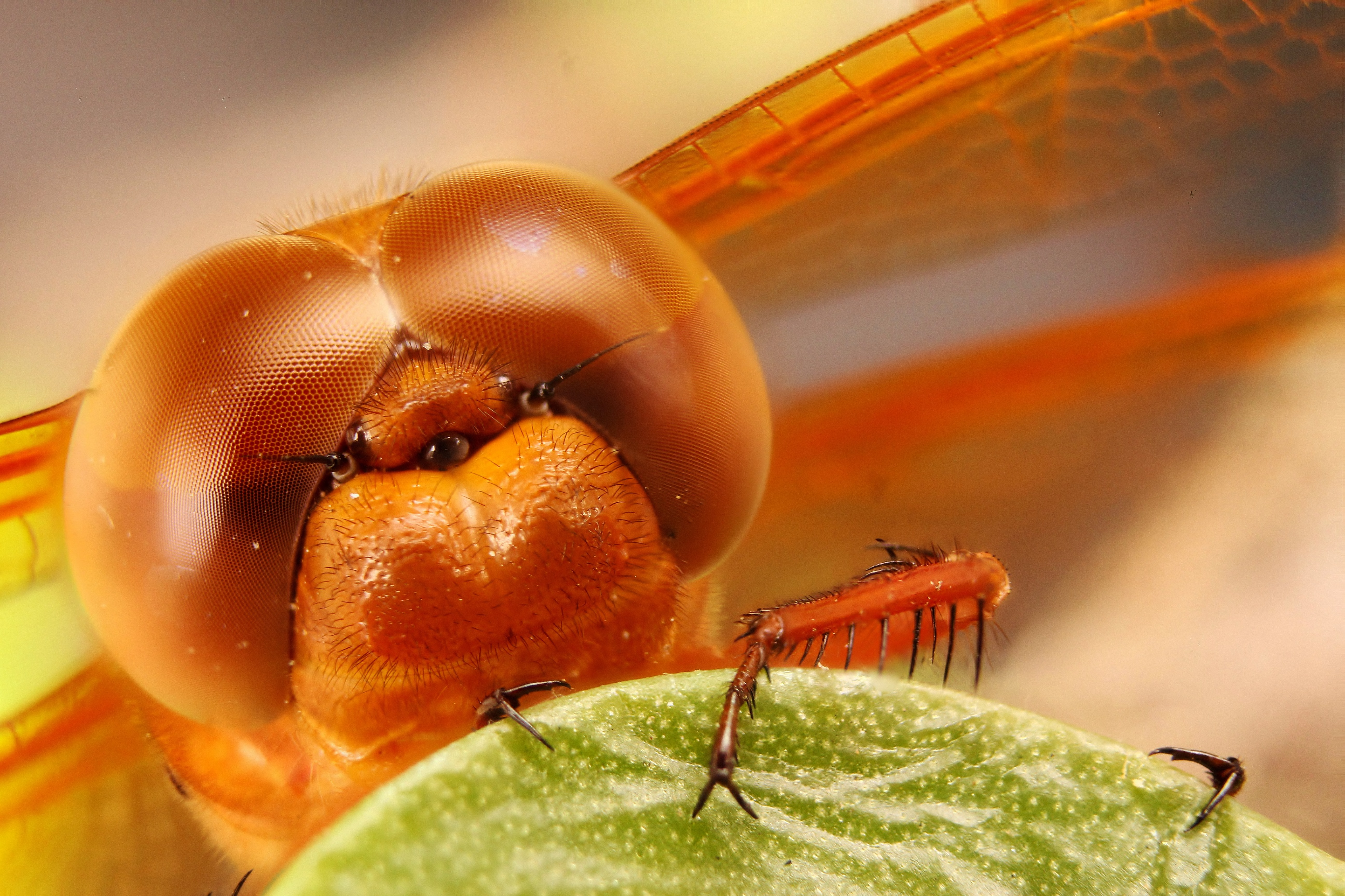 Libellula croceipennis (Neon skimmer) head of newly emerged female. The three simple eyes (ocelli) are clearly visible in this image. One is in the center of the head and the other two are just above the left and right antennas. - focus stacked using Zerene stacker Location: Fullerton, CA, USA This is one of the dragonflies from this video that has transformed into an adult